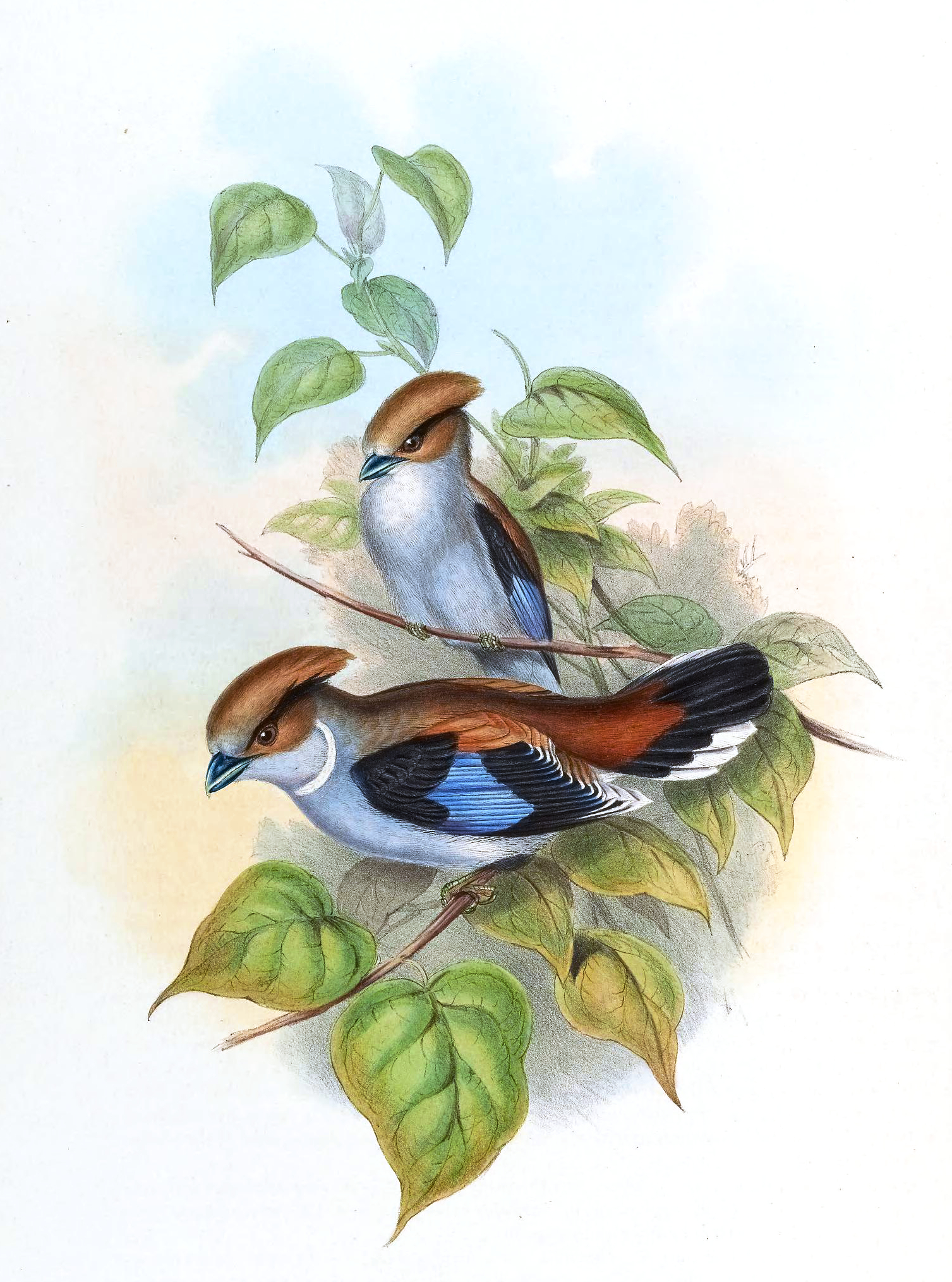 Silver-breasted Broadbill (Hodgson's Broadbill, Nepal Collared Broadbill) Serilophus lunatus (Hodgson)